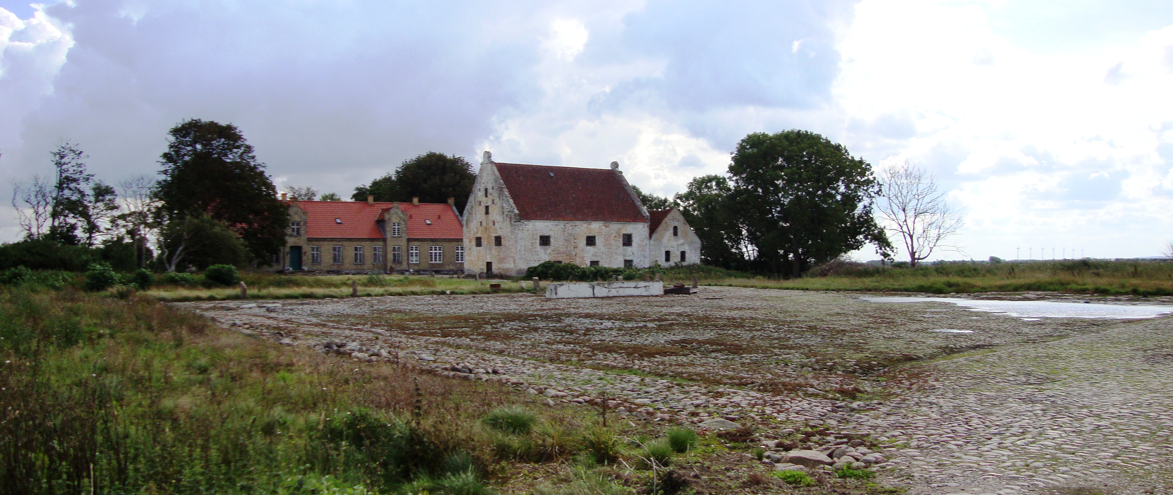 The remains of Hjermitslevgaard i Øster Hjermitslev, Vendsyssel, Denmark.